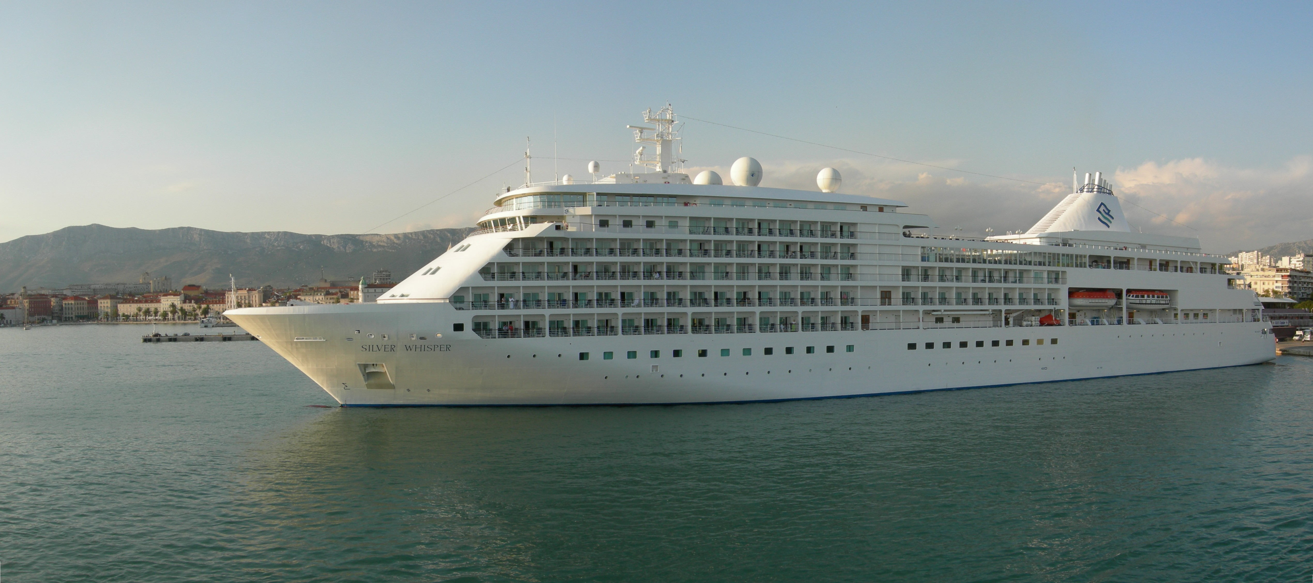 Silver whisper at Split Harbour, Croatia (photo is put togeher from 2 photos)